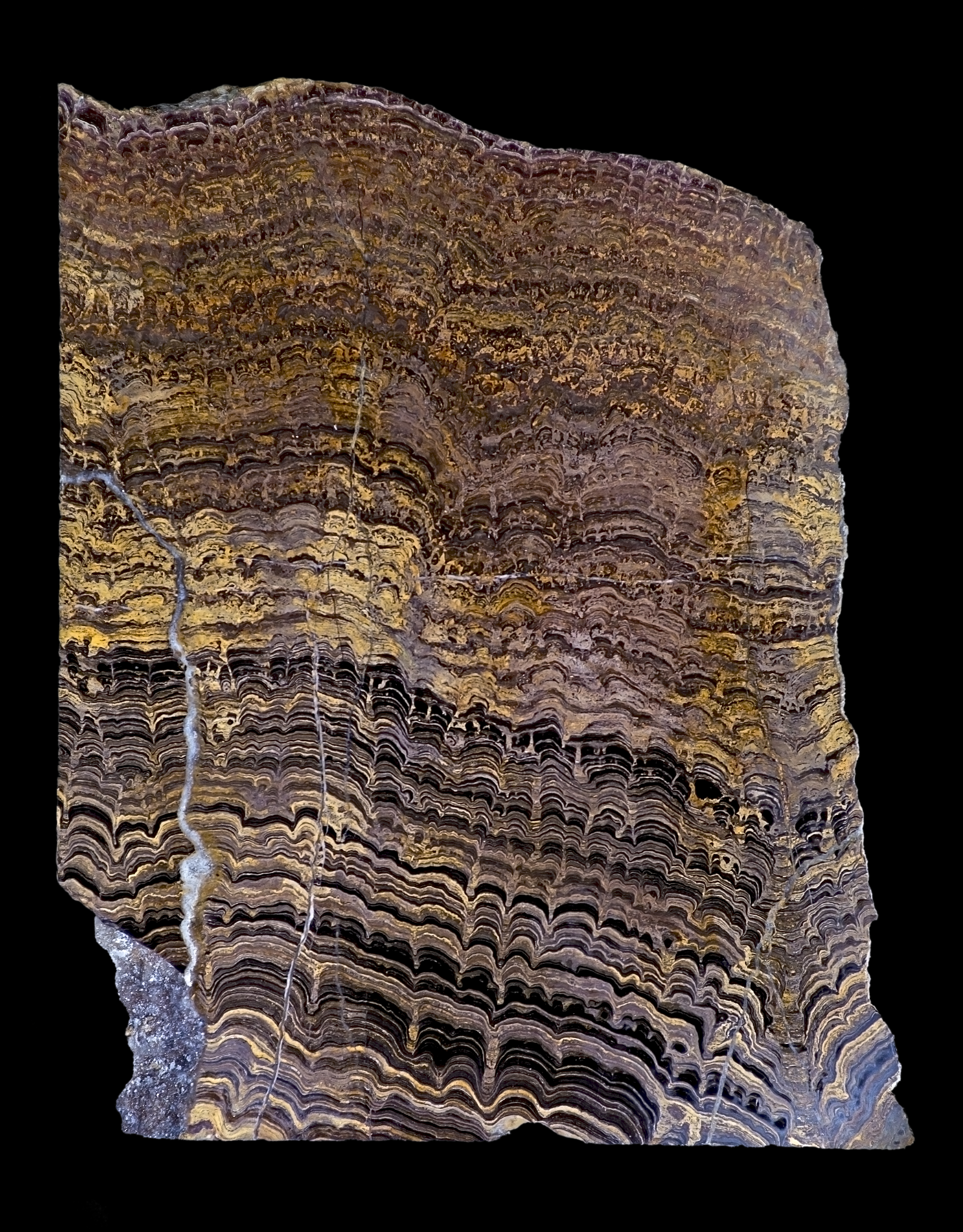 Stromatolite Stage : Proterozoic from 2 500 to 542 ± 1 Ma (million years ago). This dating is now changed by new studies: Maastrichtian, about 70 Ma. Locality: Eastern Andies South of Cochabamba, District of Cochabamba, Bolivia Size : 38,5x31x2,5 cm